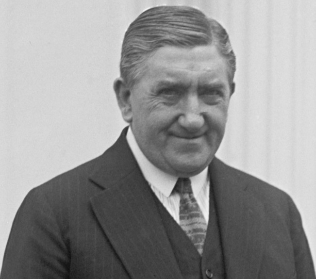 Charles F. X. O'Brien (New Jersey Congressman)